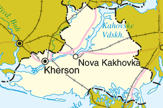 Map of Kherson Oblast, Ukraine.